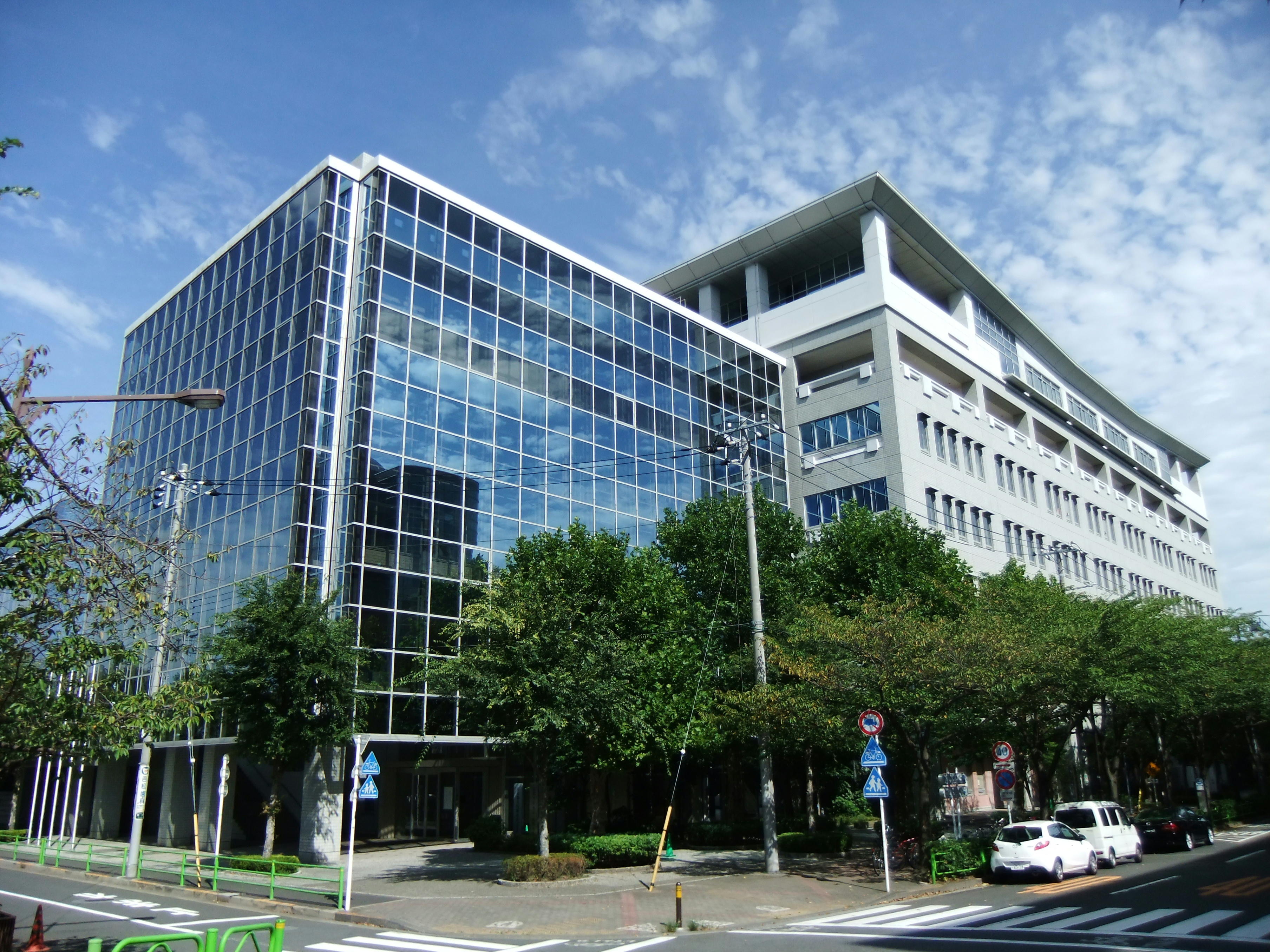 Tokyo Metropolitan University, Graduate School of Social Sciences, Law School at Harumi Campus